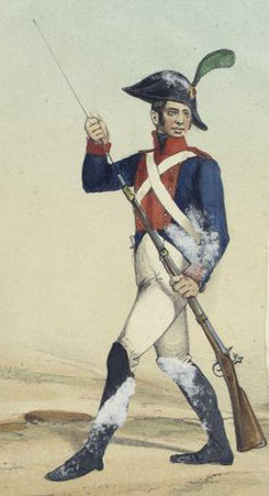 Uniform for the Barbastro light battalions of the Spanish Army circa 1806